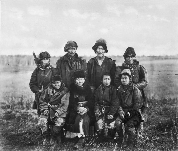 Yakuts Sakhas Beginning of the 20th c. Yakutia